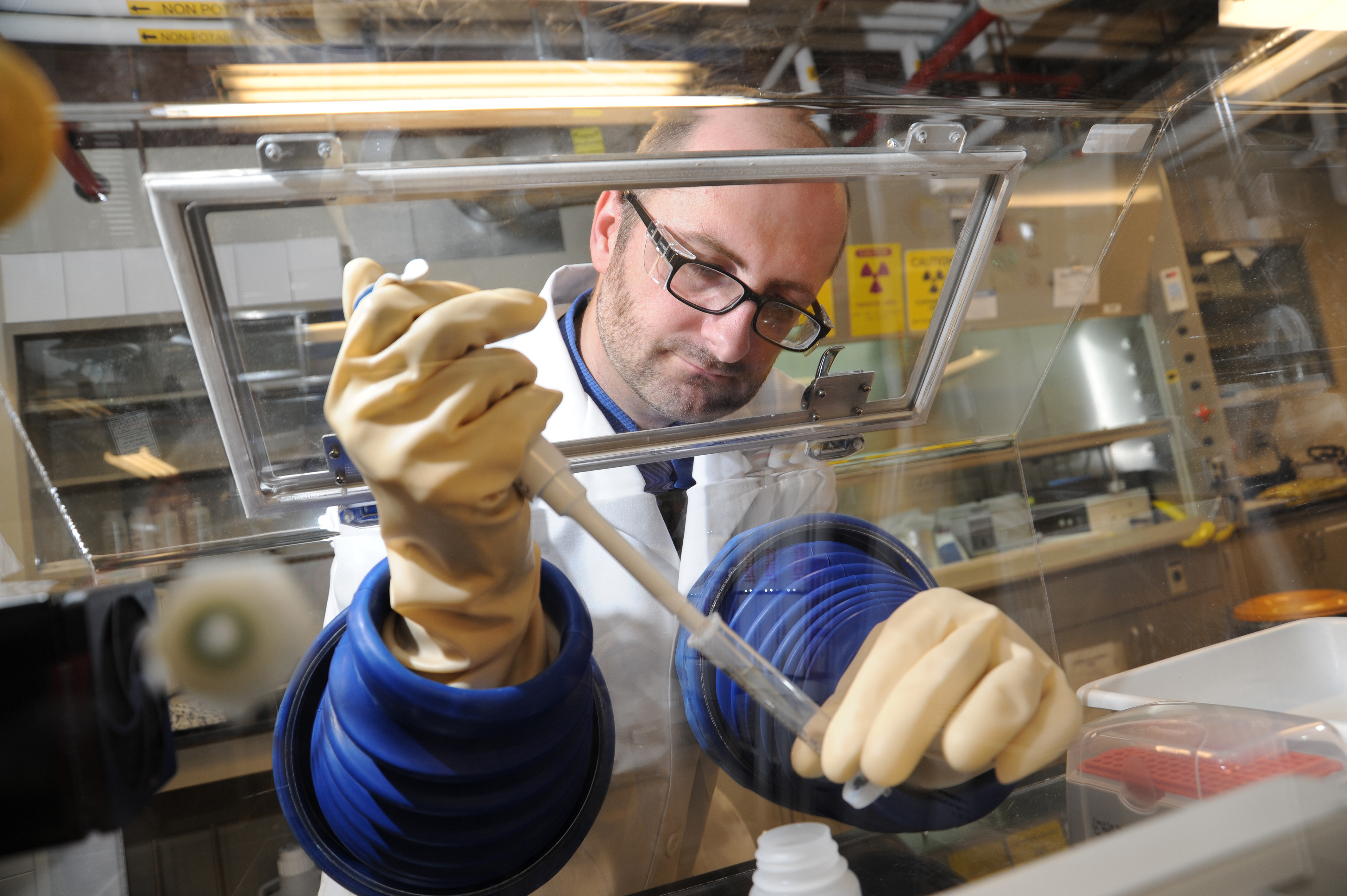 The recipient of an INL Early Career Achievement Award, Zalupski studies how to separate valuable materials from used nuclear fuel and other complex mixtures.